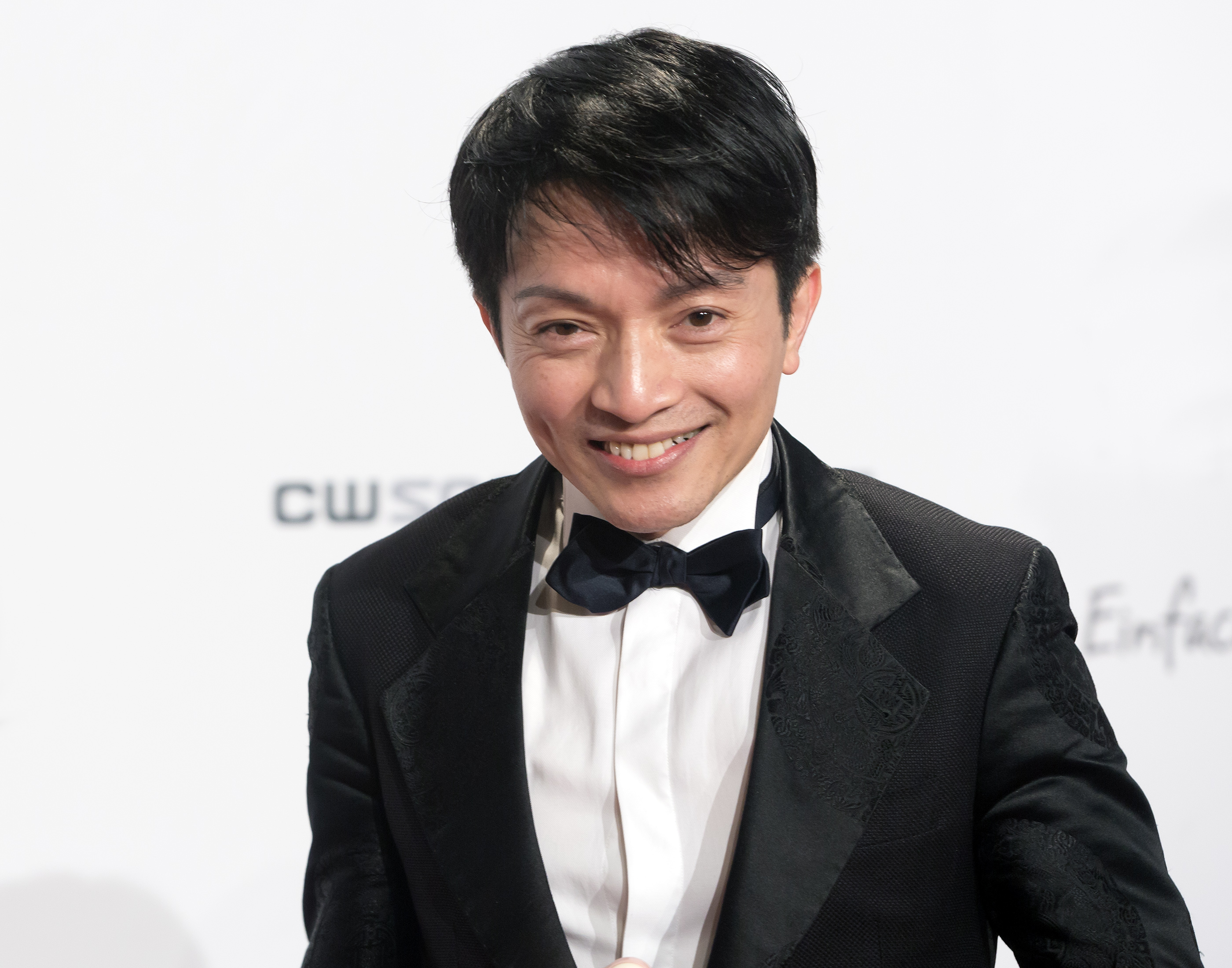 La Hong Nhut on the red carpet of the Filmball Vienna at Rathaus, Vienna, Austria.